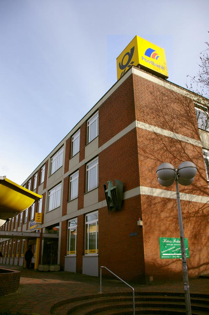 The Witten main post in January 2007. It was demolished in May 2008.